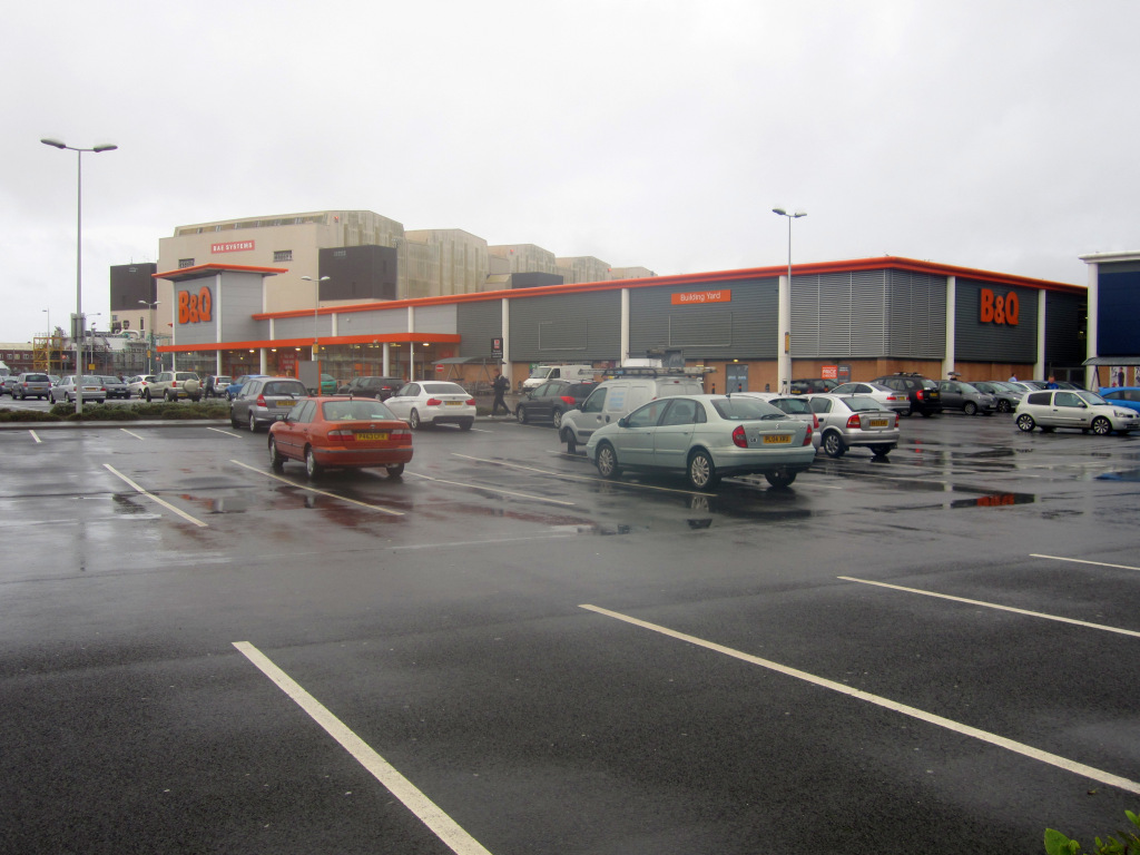 B&Q store, Barrow-in-Furness, England